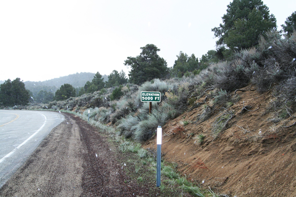 5000 ft. elevation sign on CA SR-178